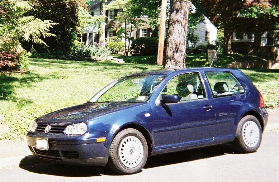 Volkswagen Golf Mk4